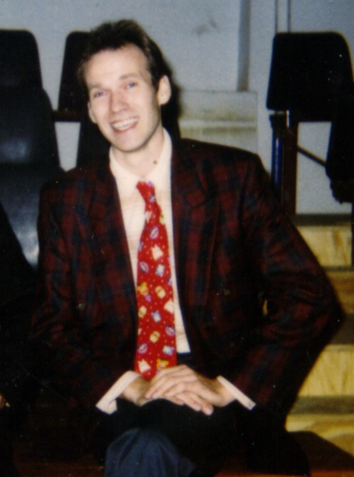 Nico Okkerse, 1995